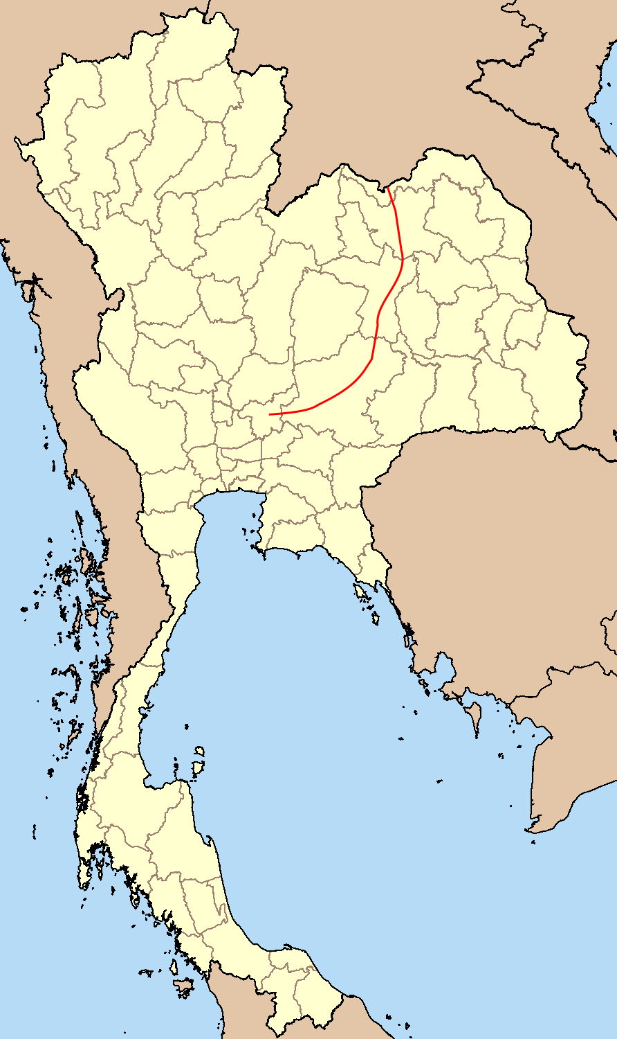 approximate course of Mittraphap Road (Highway No. 2, or "friendship highway") in Thailand